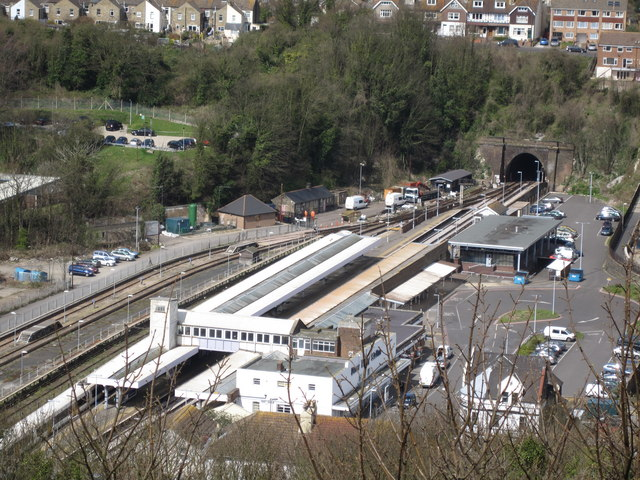 Dover Priory Station Viewed from the Western Heights